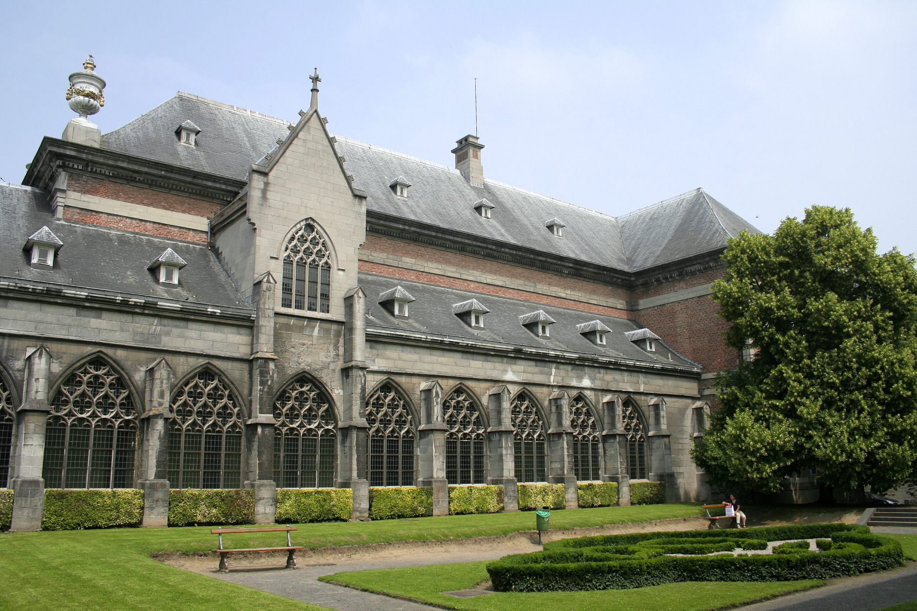 Tournai (Belgium), part of the old St. Martin abbey cloister.